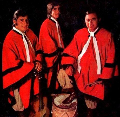 Las Voces de Orán. Folk group. Argentina. Martín Zalazar, Federico Córdoba y Roberto Franco